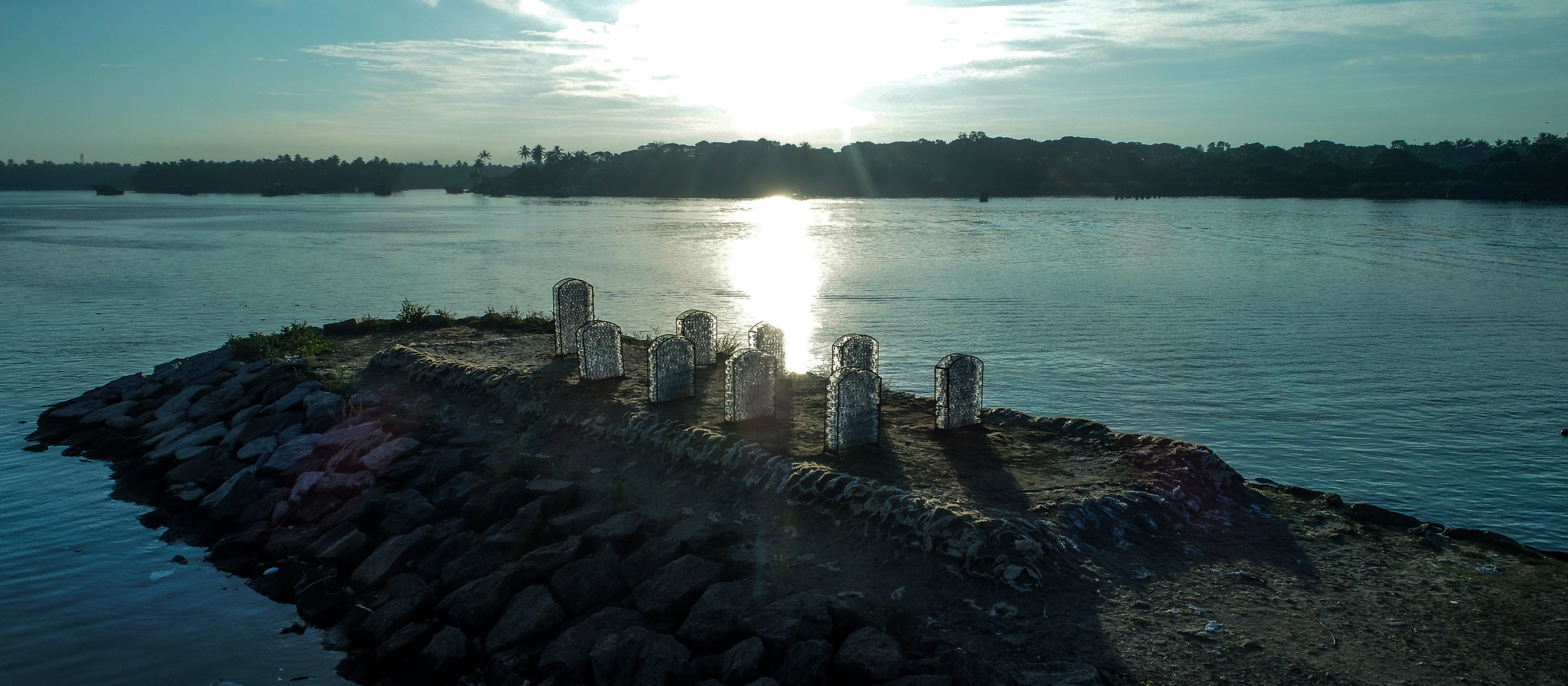 World's First Marine Cemetery by Climate Change Activist Aakash Ranison in Calicut, Kerala.